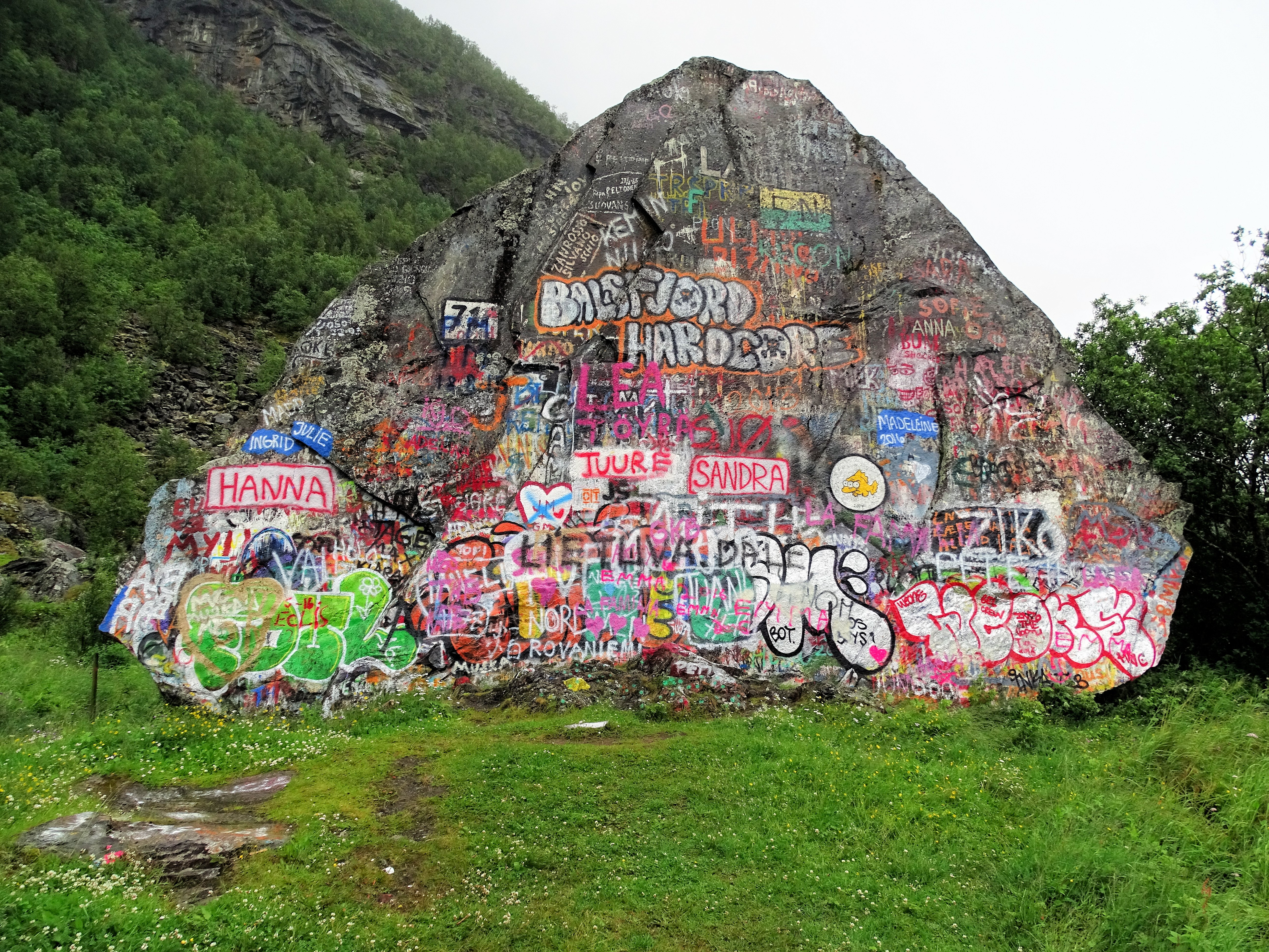 A rock in Nordkjosbotn where it is tradition to leave your name as you travel past it.